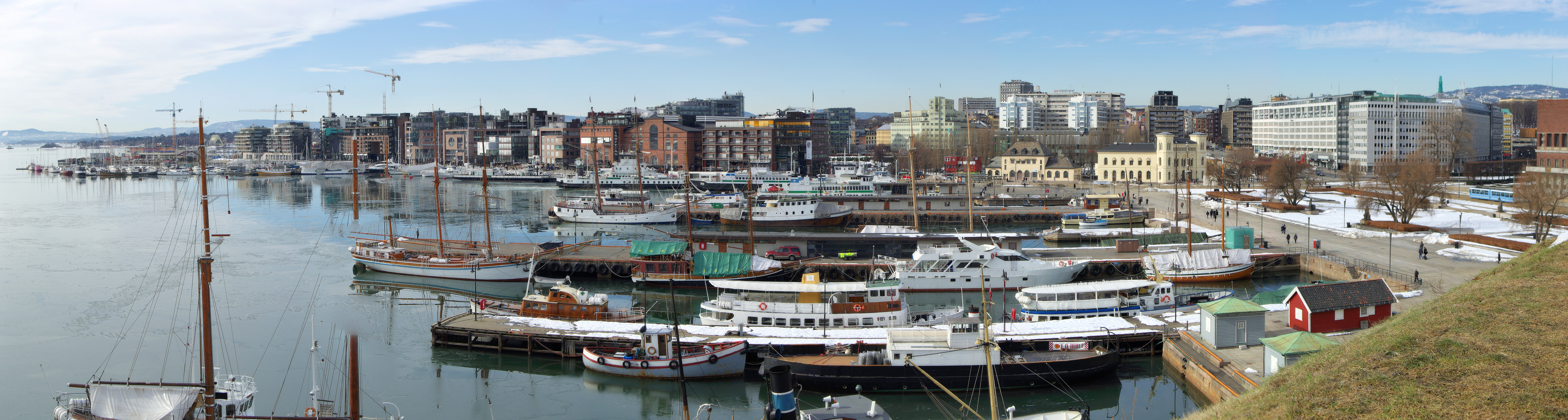 Oslo harbour seen from Akershus castle. Stiched from 7 upgright pictures.